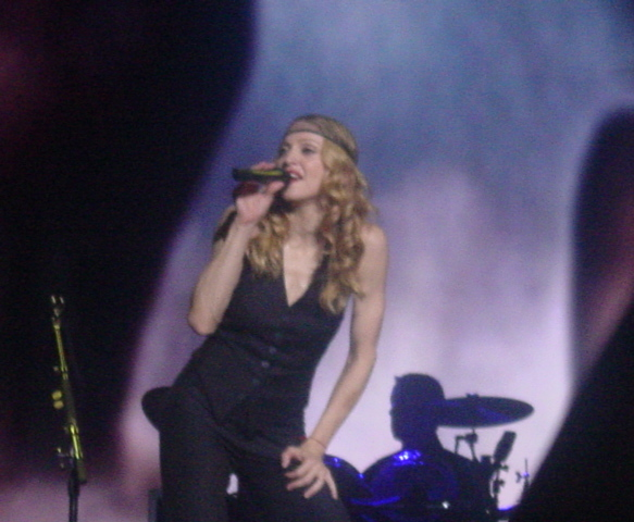 Concert